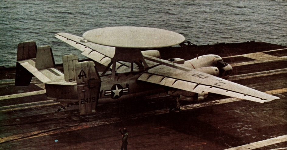 A U.S. Navy Grumman E-2B Hawkeye (BuNo 152479) from Airborne Early Warning Squadron VAW-123 Screwtops after landing aboard the aircraft carrier USS Saratoga (CVA-60). VAW-123 was assigned to Carrier Air Wing 3 (CVW-3) aboard the Saratoga for a deplyoment to Vietnam from 11 April 1972 to 13 February 1973. 152479 was retired by the U.S. Navy on 25 October 1985 and sold to the Republic of China Air Force in 1995 (serial 2502, later 2504).